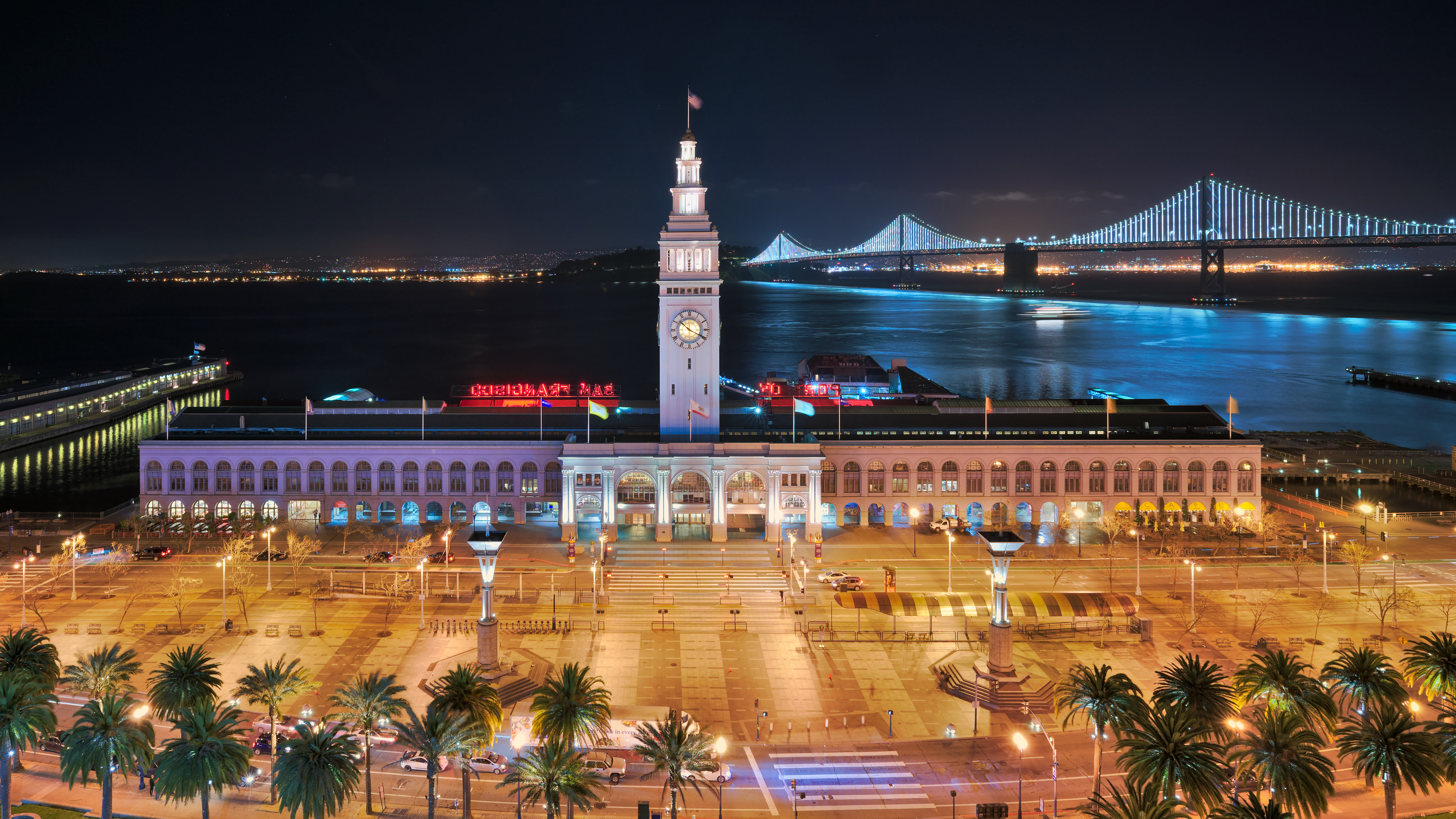 The Ferry Building is a terminal for ferries on the San Francisco Bay and an upscale shopping center located on The Embarcadero in San Francisco, California. The Bay Bridge can be seen in the background.